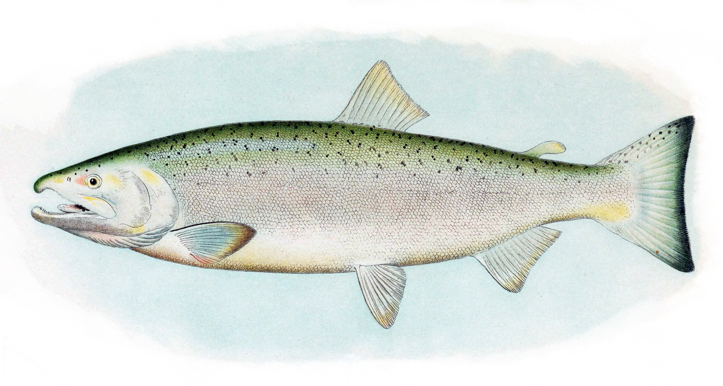 Coho Salmon, Adult Male